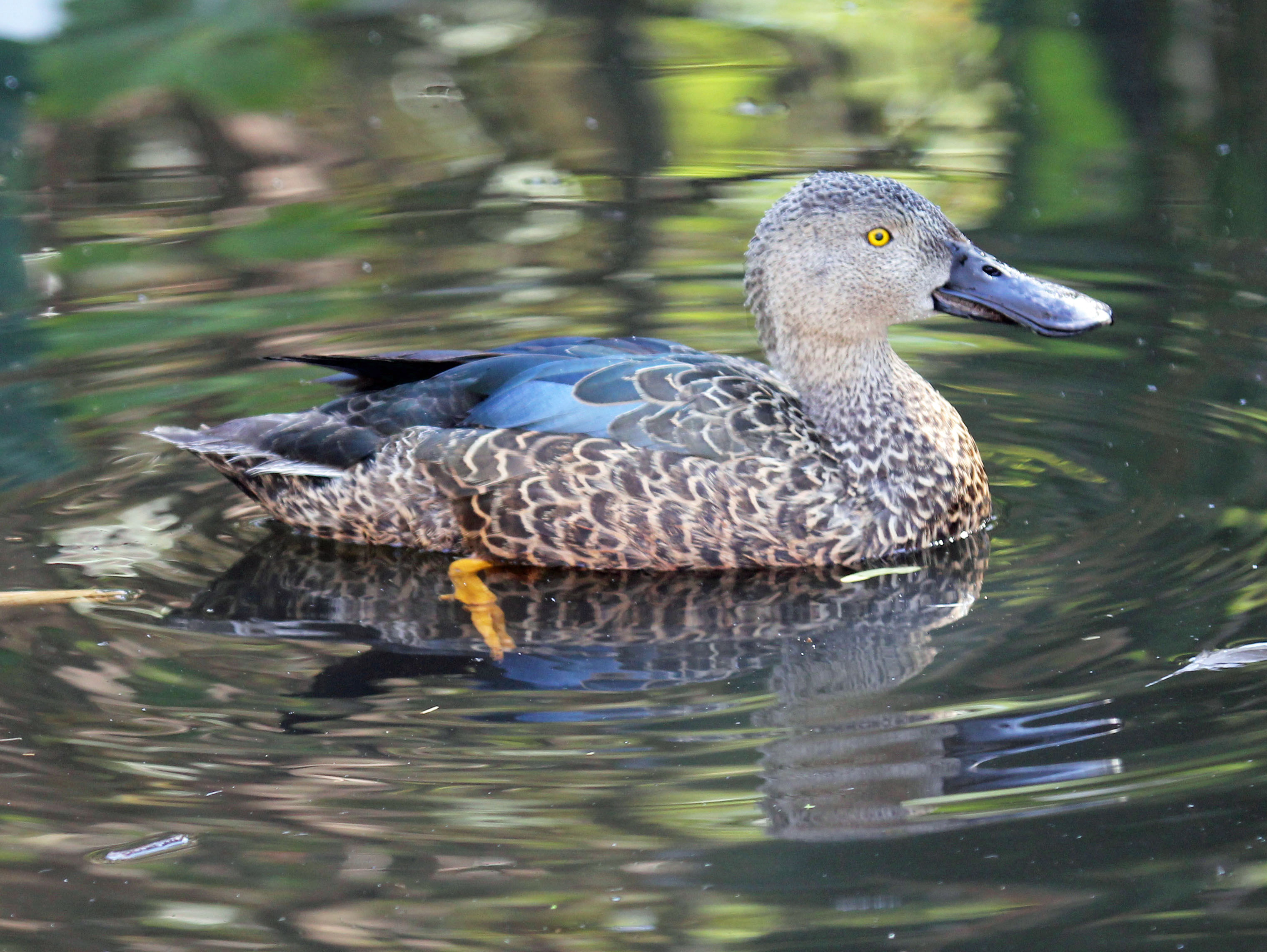 Cape Shoveler (Anas smithii) at Birds of Eden aviary, South Africa